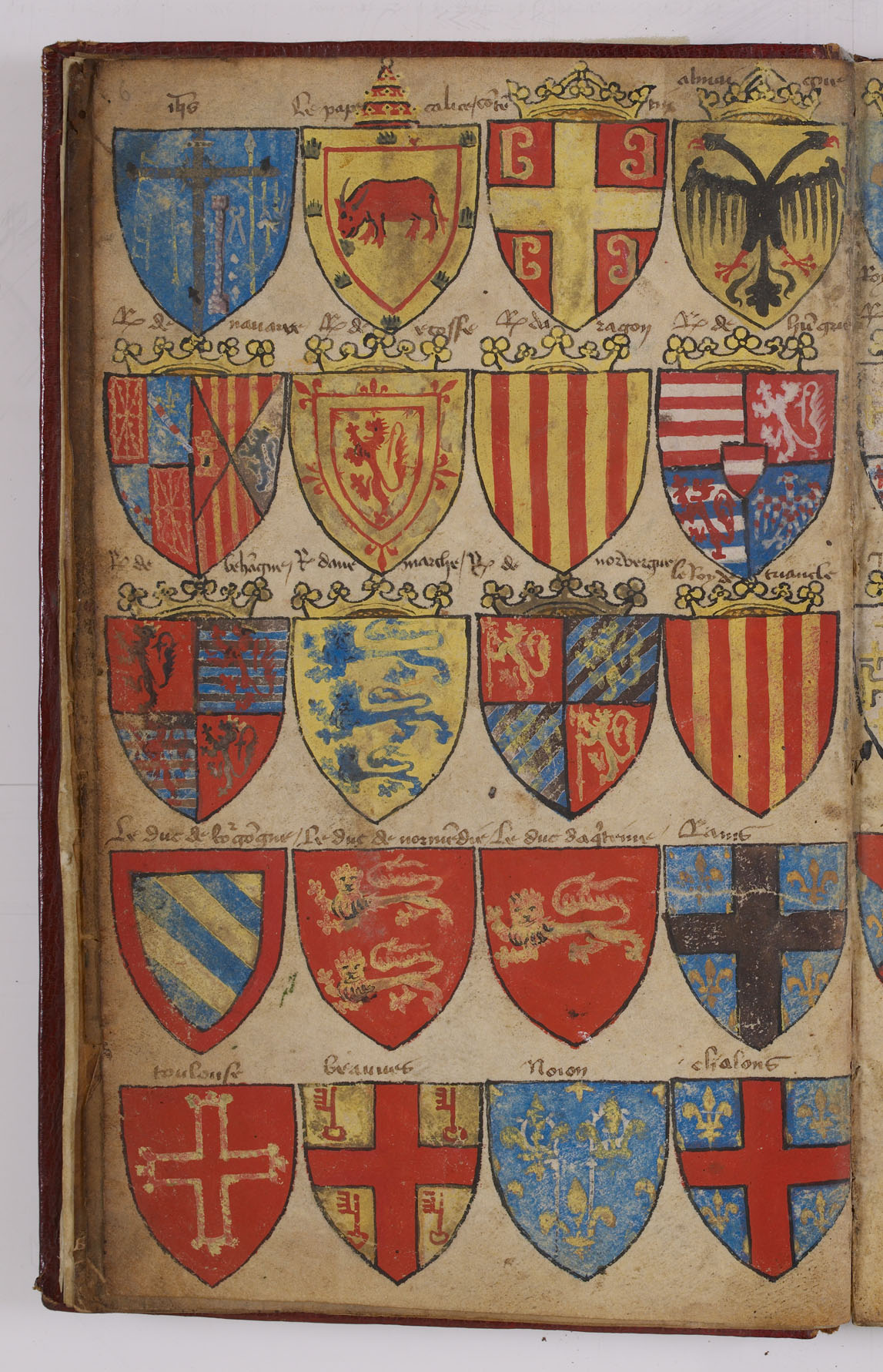 Includes "Arma Christi" in upper left corner